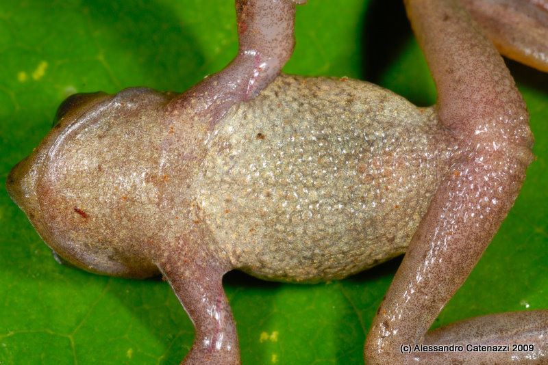 Gastrotheca antoniiochoai